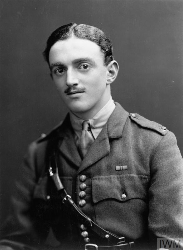 Lieutenant Charles Henry Settrington (alias Gordon-Lennox)